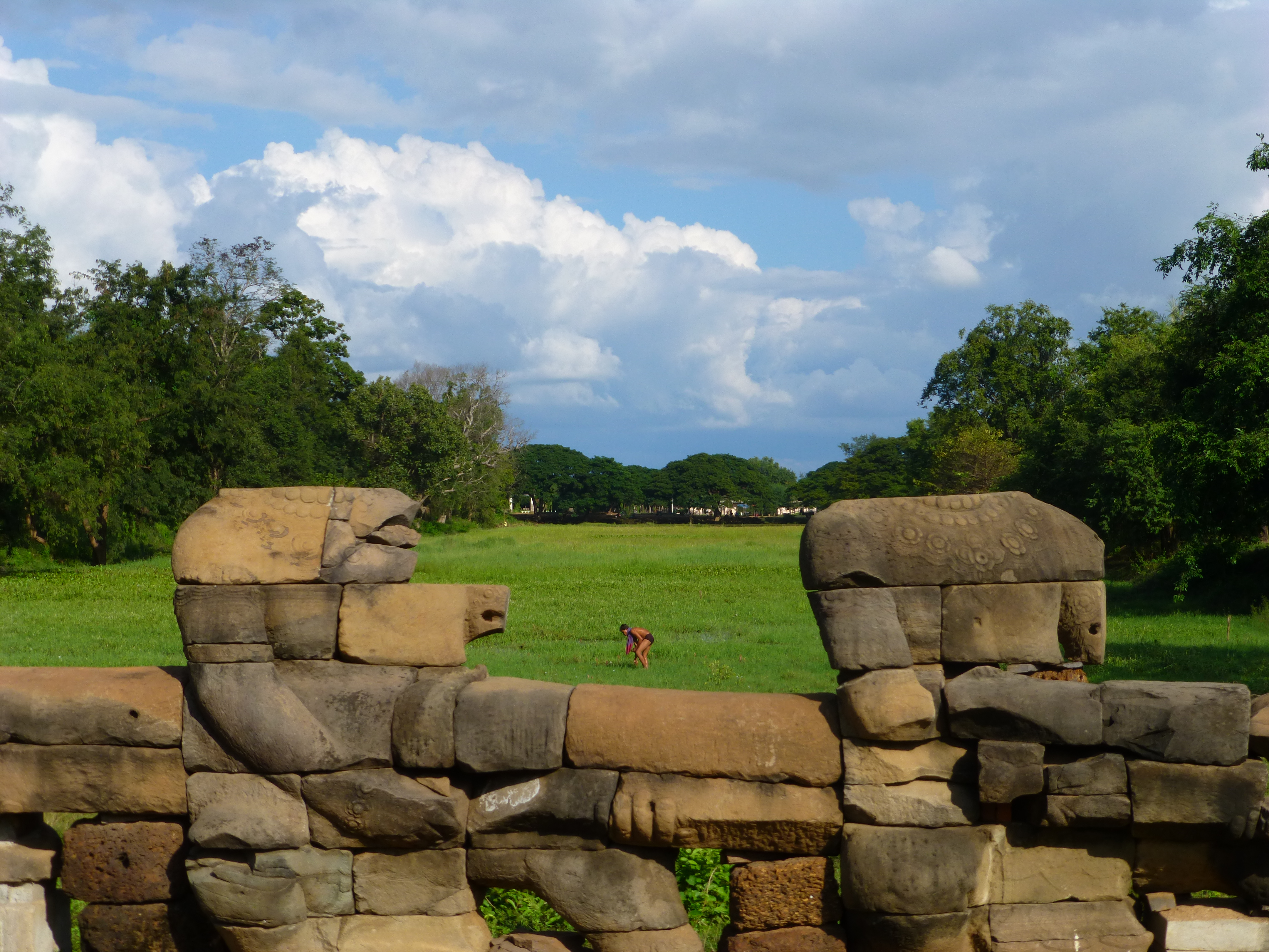 015 Causeway and Moat at Banteay Chhmar Photograph from Banteay Chhmar in north-west Cambodia taken by Anandajoti.